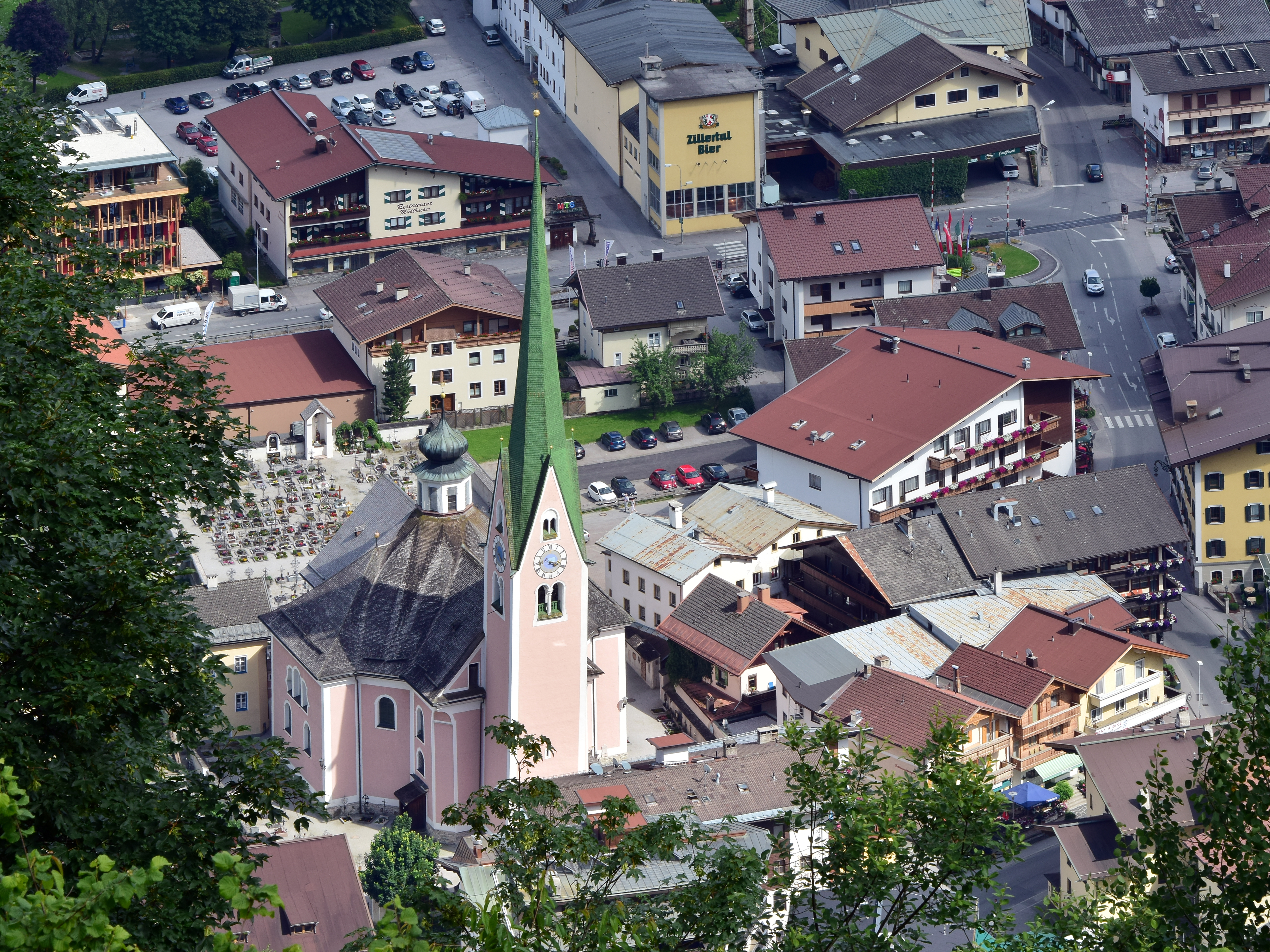 Zell am Ziller with Parish church Saint Vitus